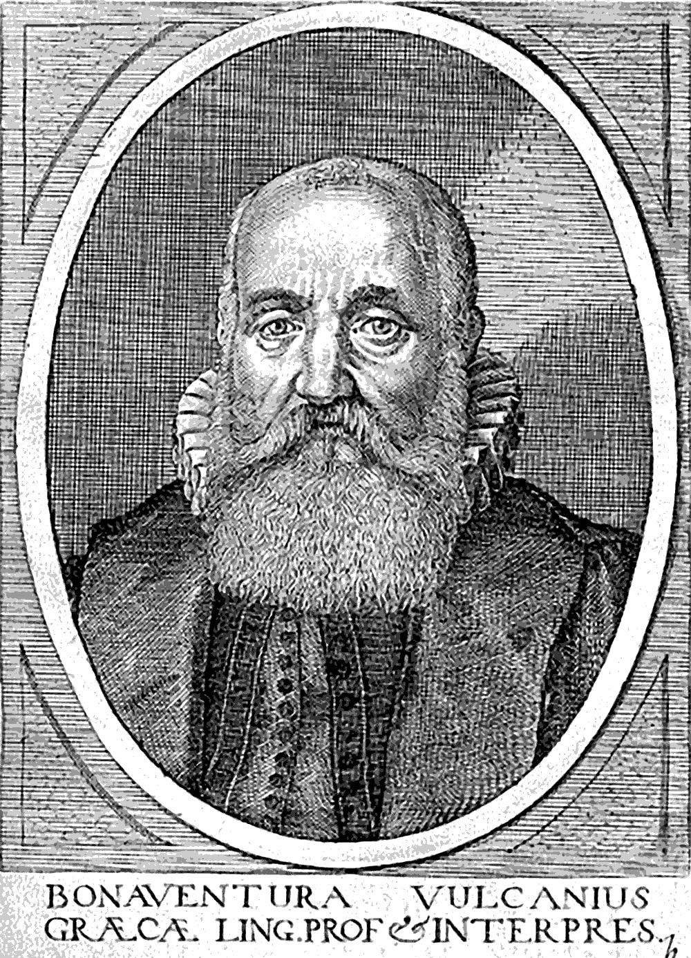 The dutch humanist Bonaventura Vulcanius (1538-1614)